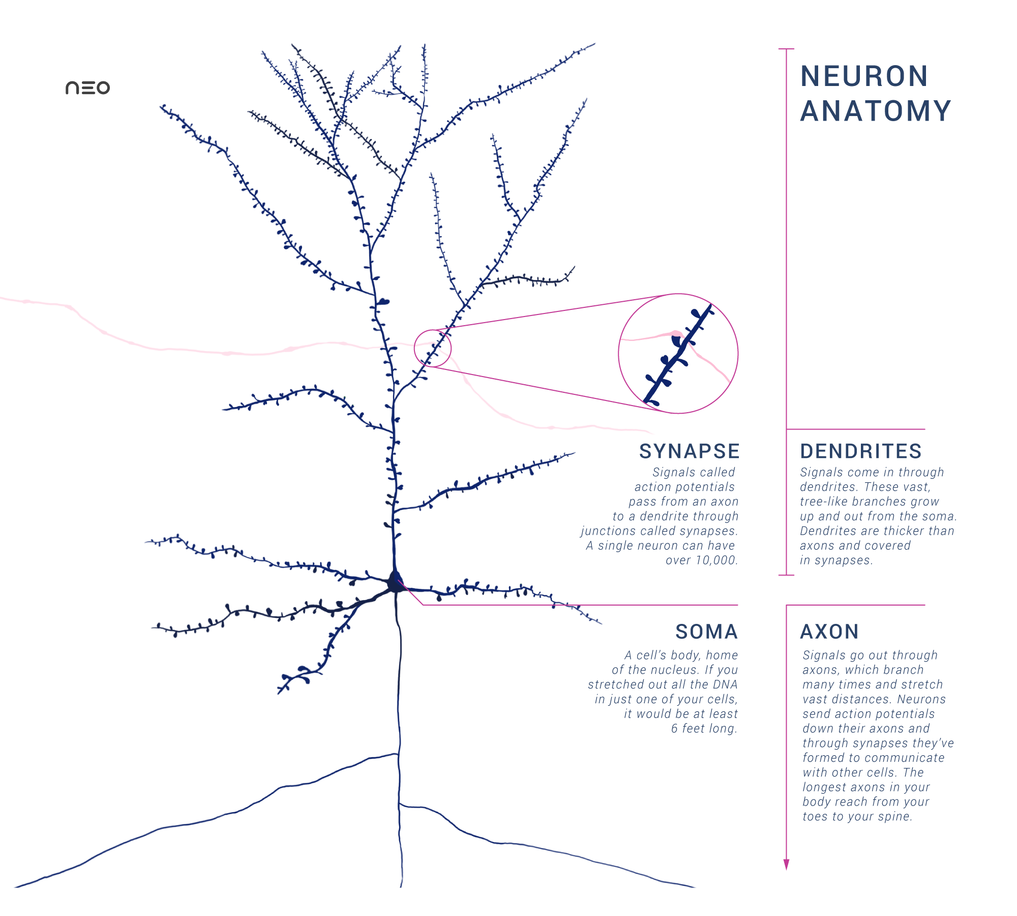 This schematic shows a single pyramidal neuron, the dominant excitatory neuron of cerebral cortex, with an synaptic connection from an incoming axon. It briefly explains the soma, dendrites, axon, and synapse and was created by Amy Sterling and Daniela Gamba for Neo Brain Game.